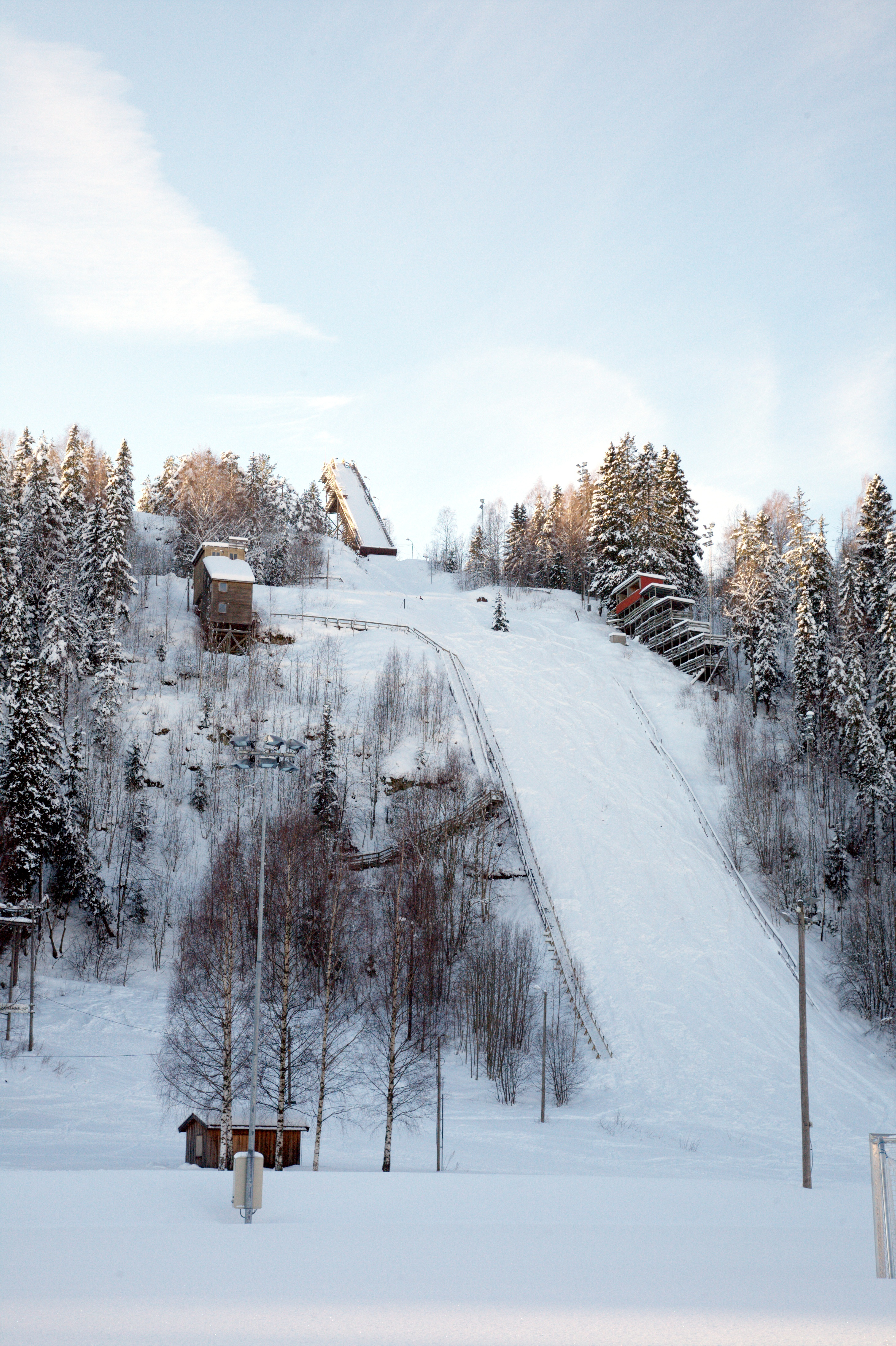 Skuibakken, a skijump in Bærum